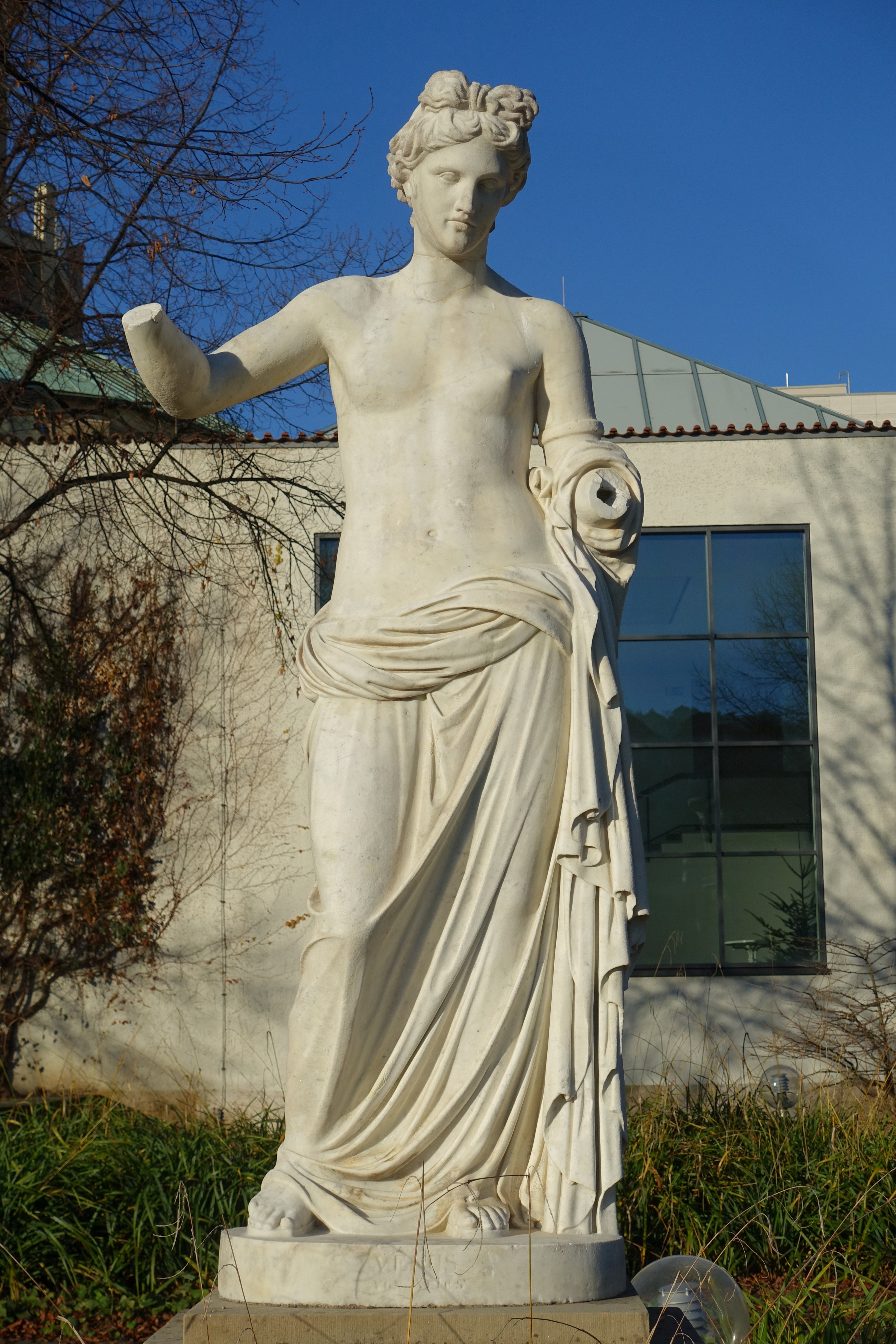 Venus of Arles by Ludwig von Hofer (1801-1887) in Schlossgarten Stuttgart - Stuttgart, Germany. This work is in the public domain because the artist died more than 100 years ago.